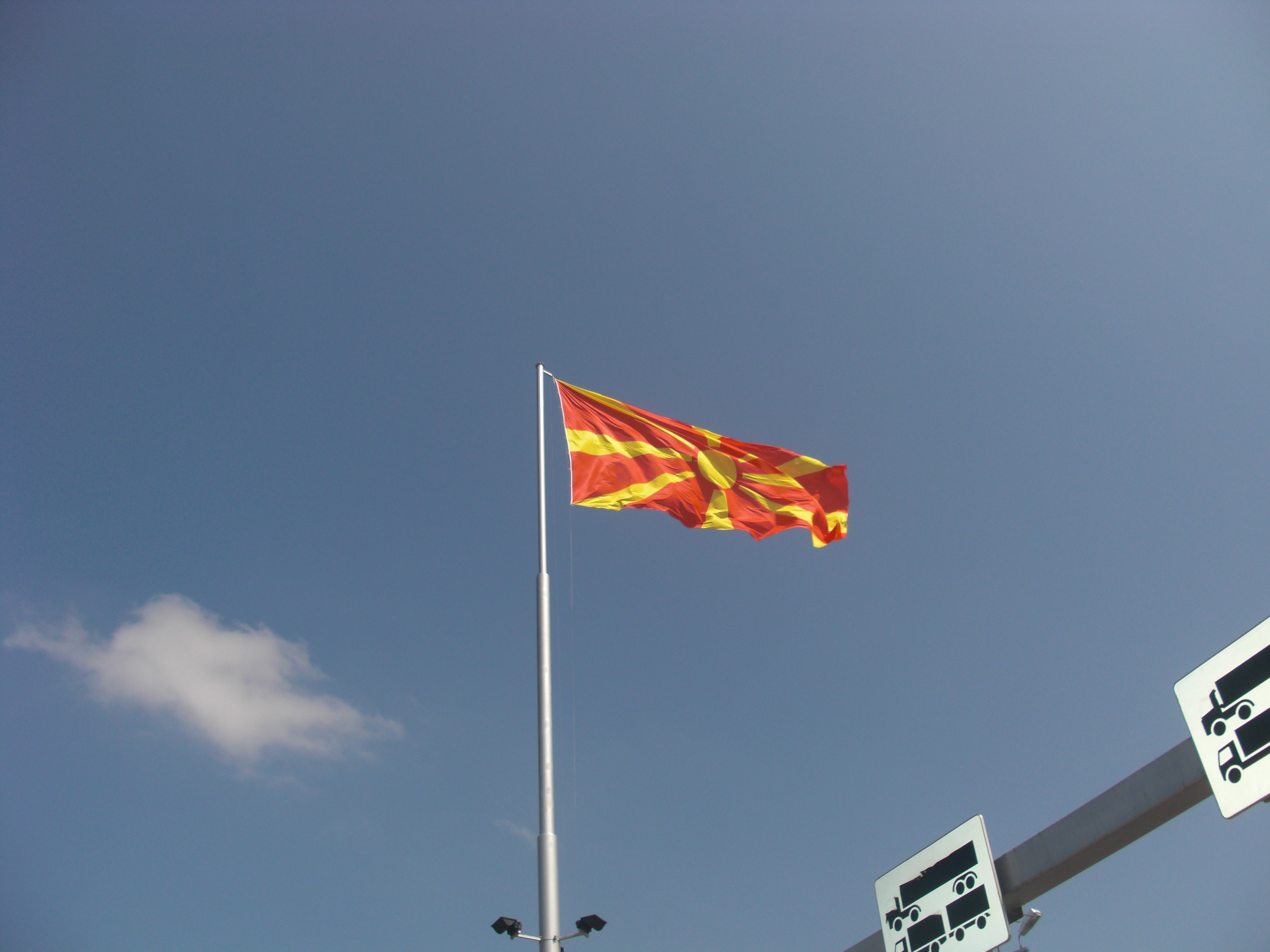 Flag of the Rep. of Macedonia on Serbian-Macedonian border at Tabanovce